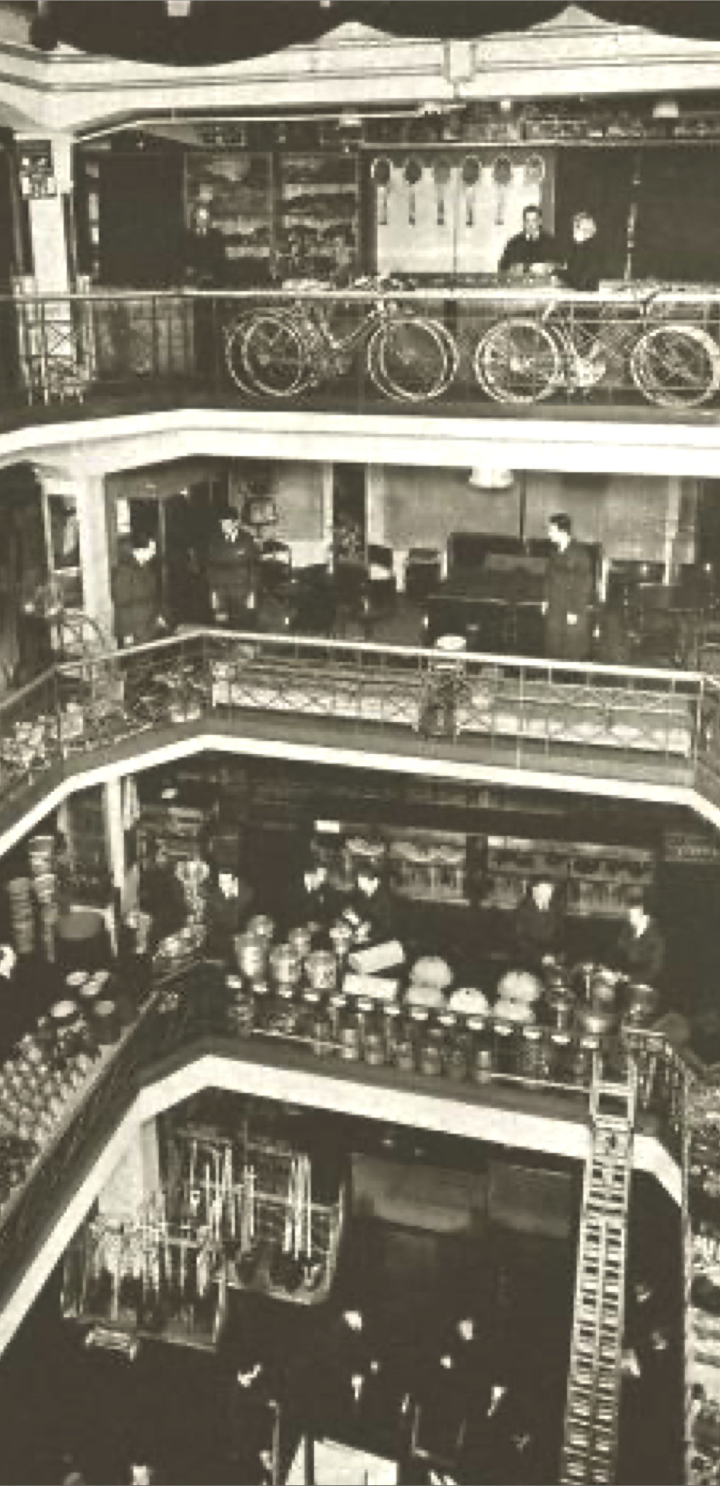 V J Rott, Praha Malé náměstí – centrální hala z let 1921–22